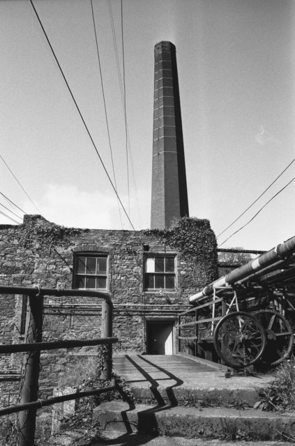 Engine house, Portlaw Tanners Former cotton mill that was then (1985) a large tannery and is now derelict. The engine house contained two rare Robey stationary steam engines - a uniflow and a side by side compound (watch this space)